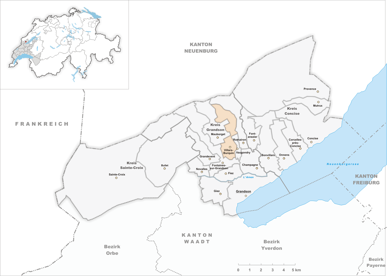 Municipality Villars-Burquin